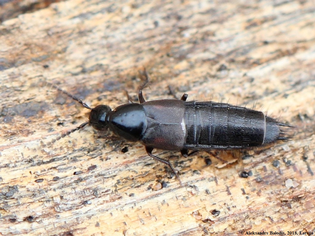 Philonthus varians